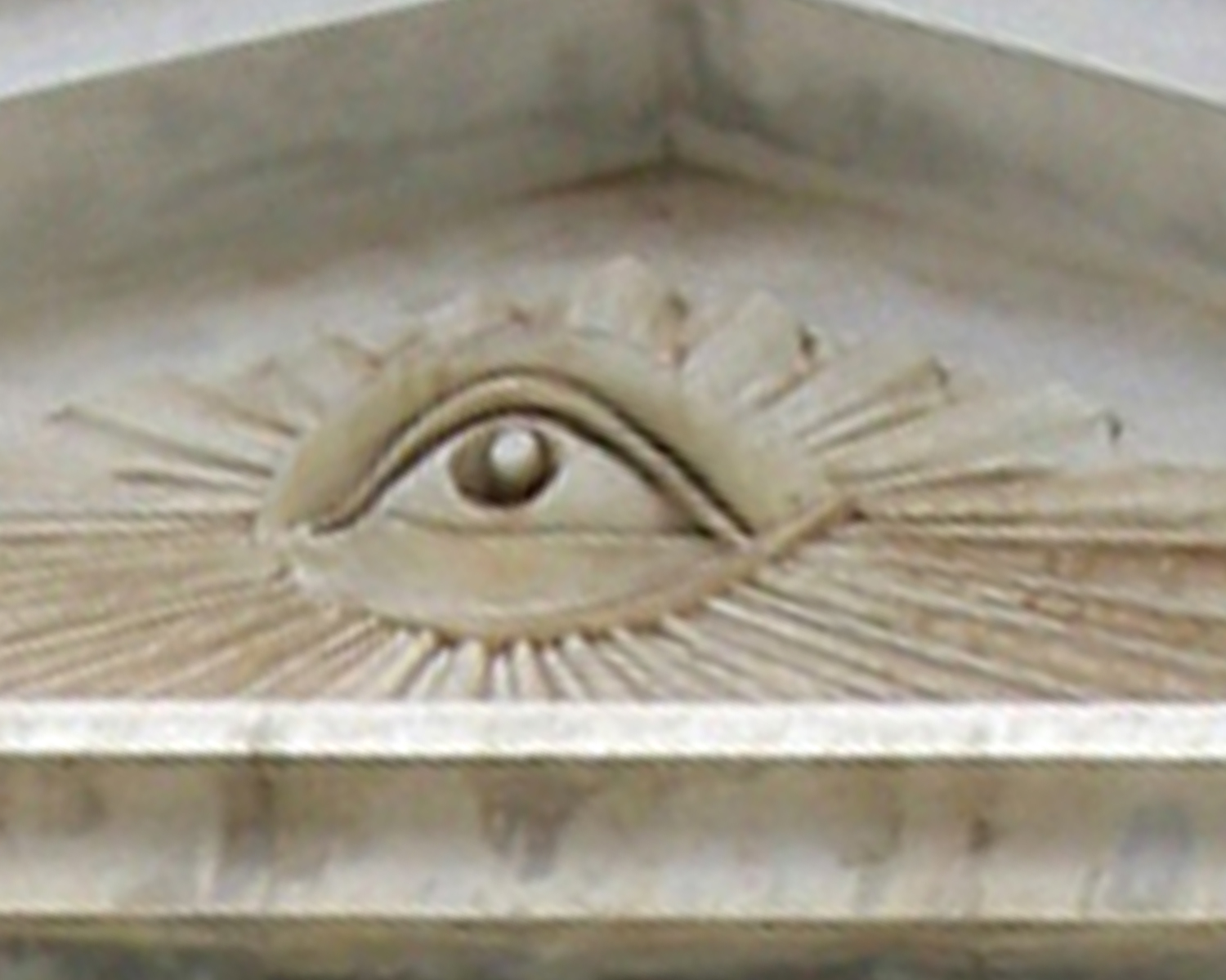 a cropped detail from Image:Santacruzmasontemple04.jpg made by Nolanus